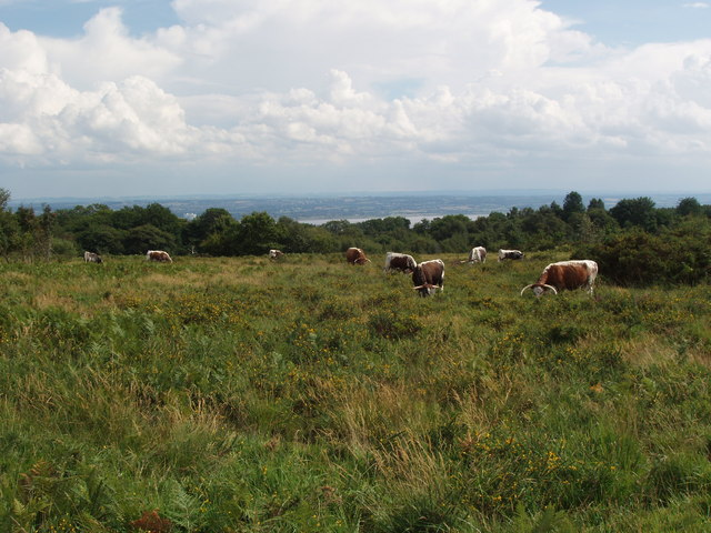 Poor's Allotment. Tidenham. A view of Poor's Allotment looking East towards the River Severn, Poor's Allotment covers 108 acres and falls into more than one square, see ST5699 for more information.